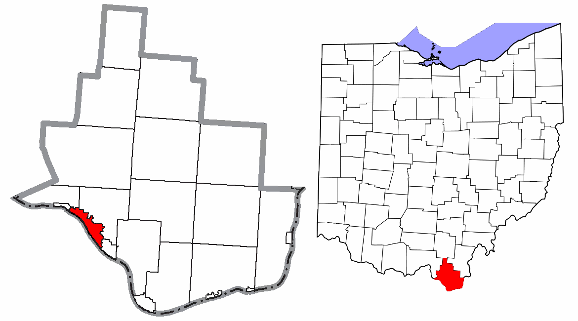 Map highlighting City of Ironton, Lawrence County, Ohio, United States.